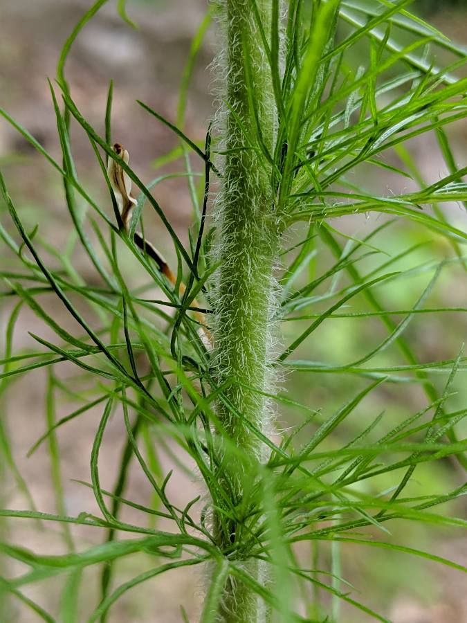 Eupatorium capillifolium, dogfennel, leaves and stem